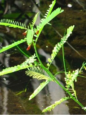 Stems and leaves of Sesbania punicea.